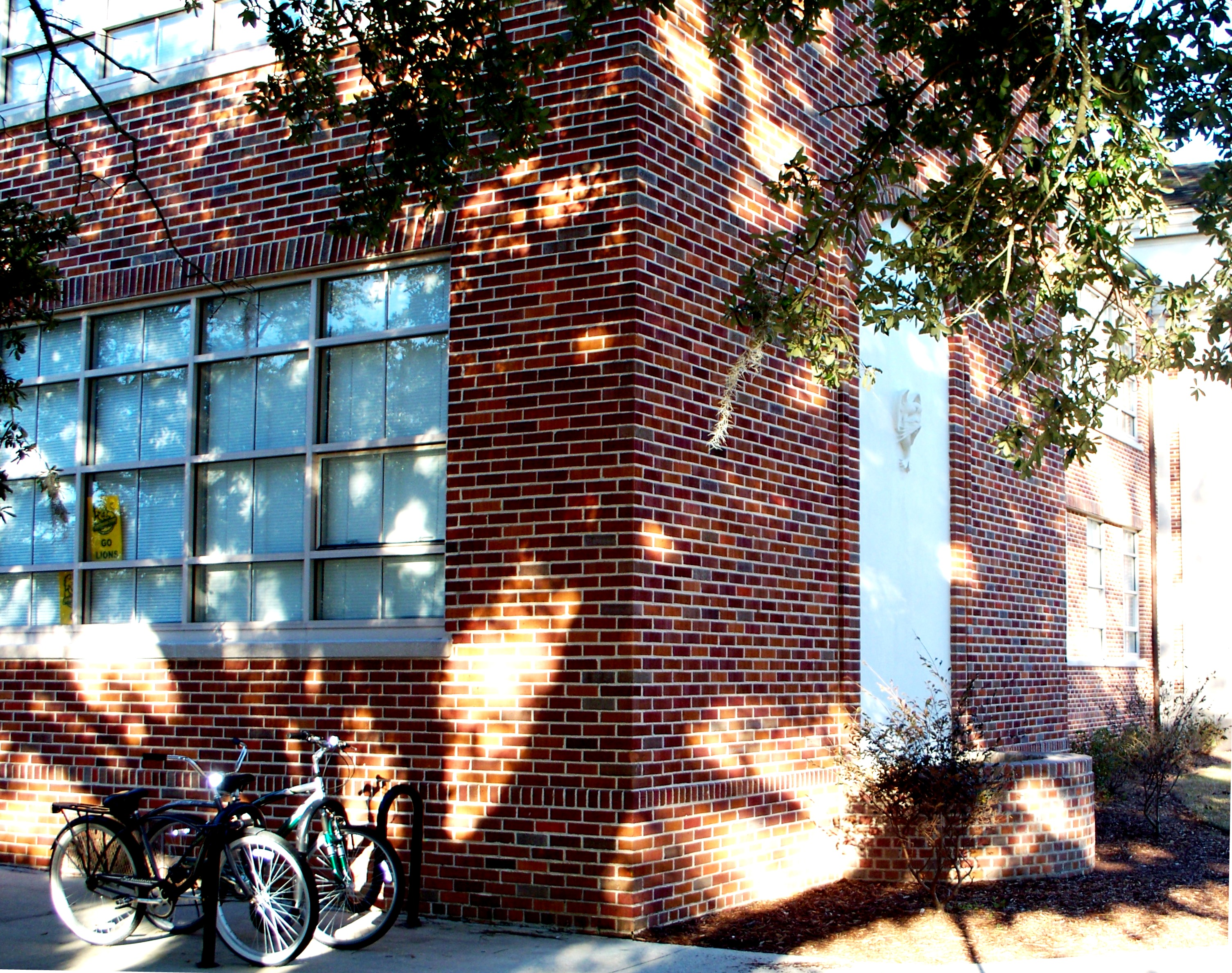 A corner of Southeastern's Lucius McGehee Hall, a sturdy example of Depression Gothic [sic]; it is on the National Register of Historic Buildings. Shown is the southwest corner, which features a bike rack.